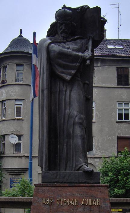 Statue of Emperor Dušan in Belgrade